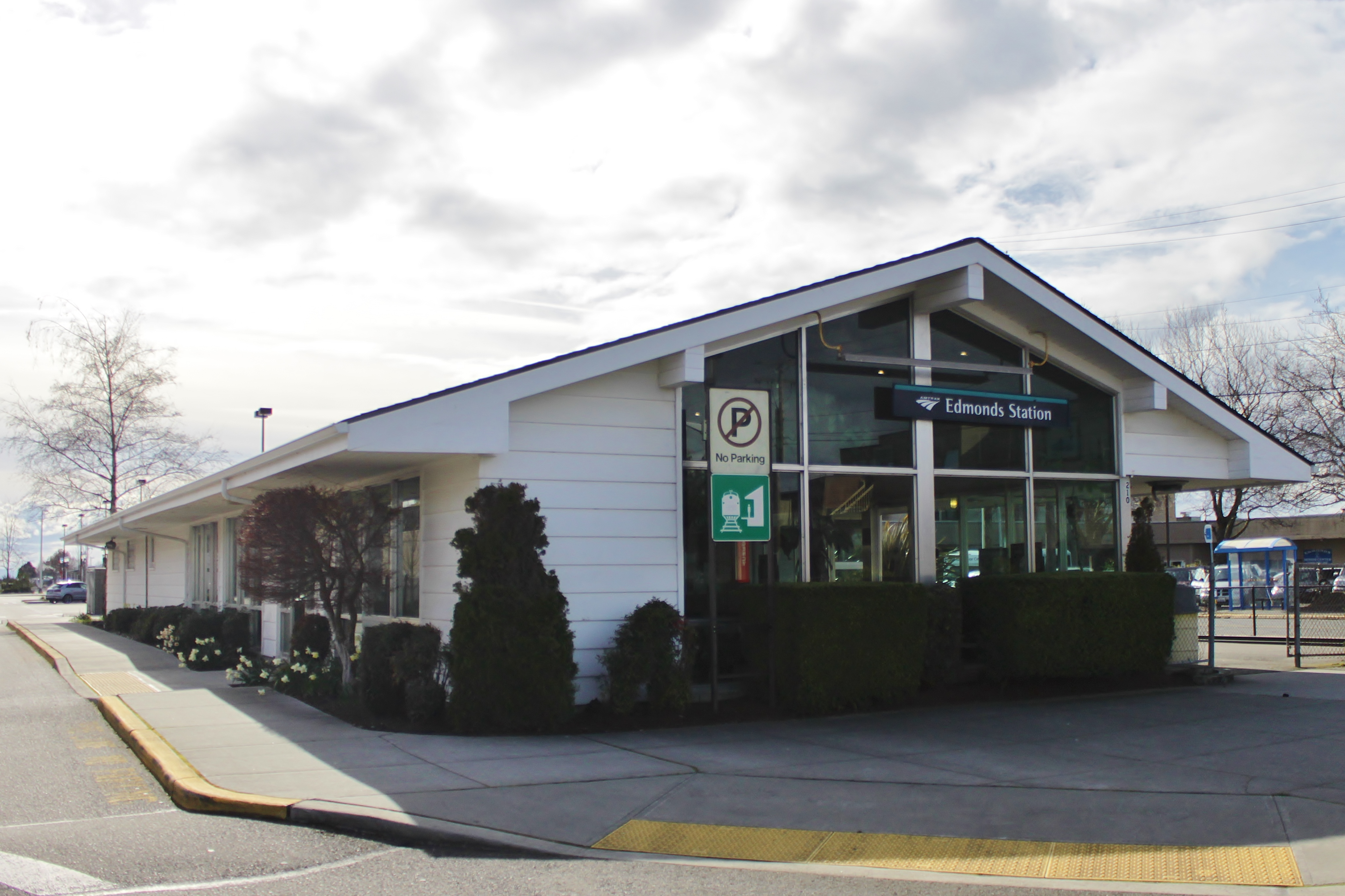 The waiting room of Edmonds station, served by Amtrak and Sounder commuter rail, seen from the north.